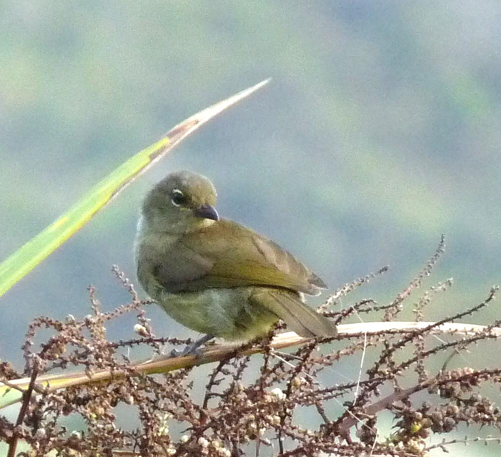 Pycnonotus capensis Cape Bulbul, immature, Plettenberg Bay, South Africa